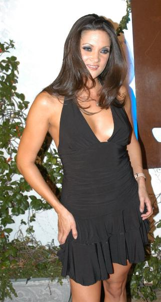 Nov 6 2006: Starlets Britney Skye and Tera Patrick will host a party Monday night at Joseph’s Café (1775 Ivar St.) in Hollywood. The event will celebrate the release of Teravision’s latest title, Sexxxpose’ Britney Skye.